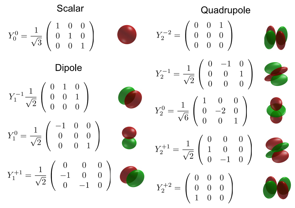 matrix elements and the real part of corresponding harmonic functions of cubic operator basis in J=1 case. Ref: Phys. Rev. B 90, 045148 (2014)